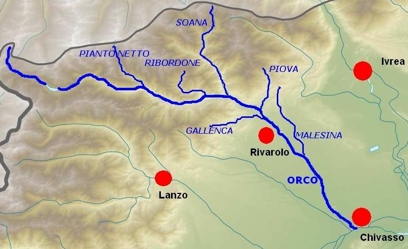 Torrente Orco (Piedmont, Italy): main tributaries